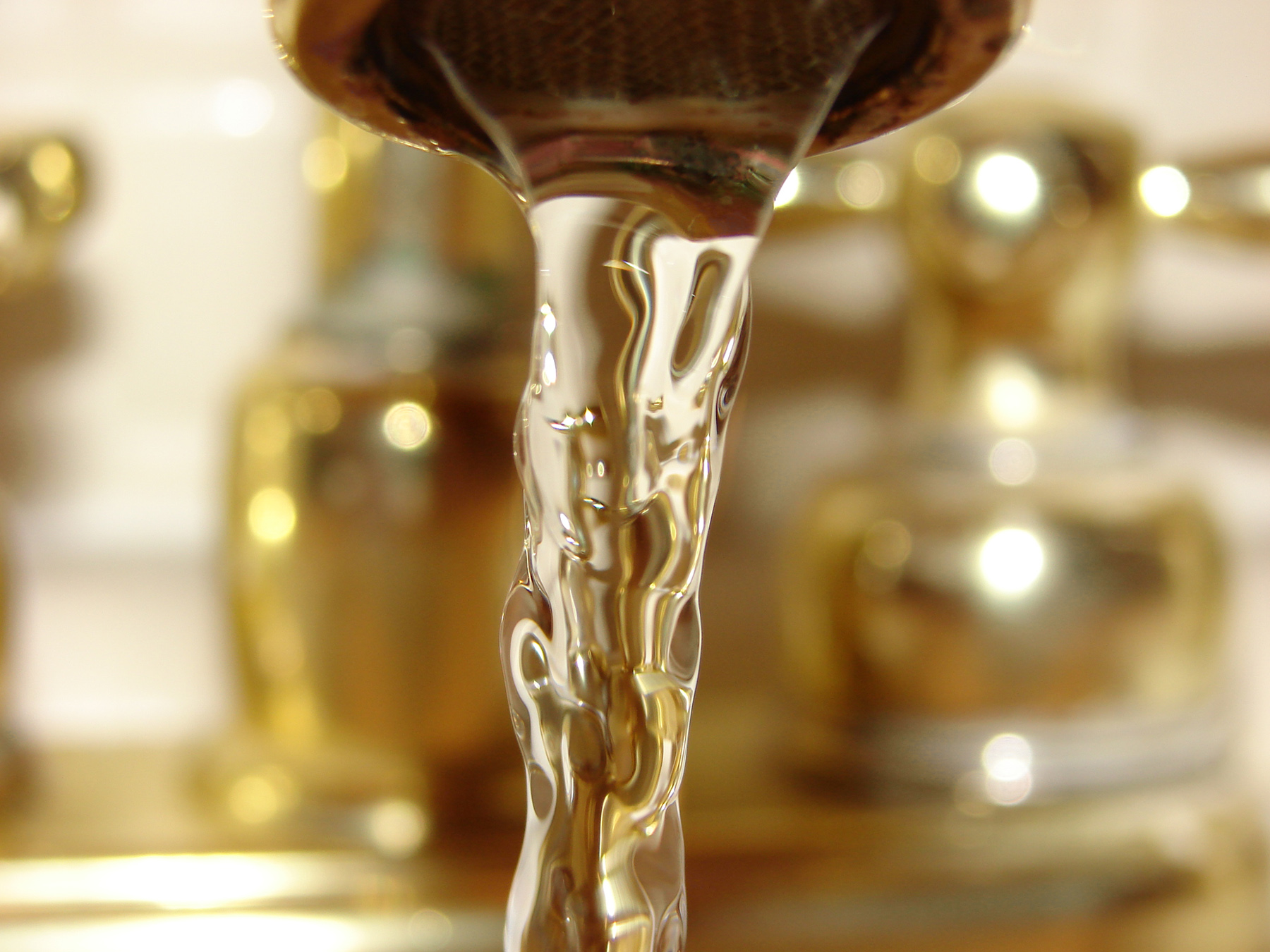 Water flowing from a tap